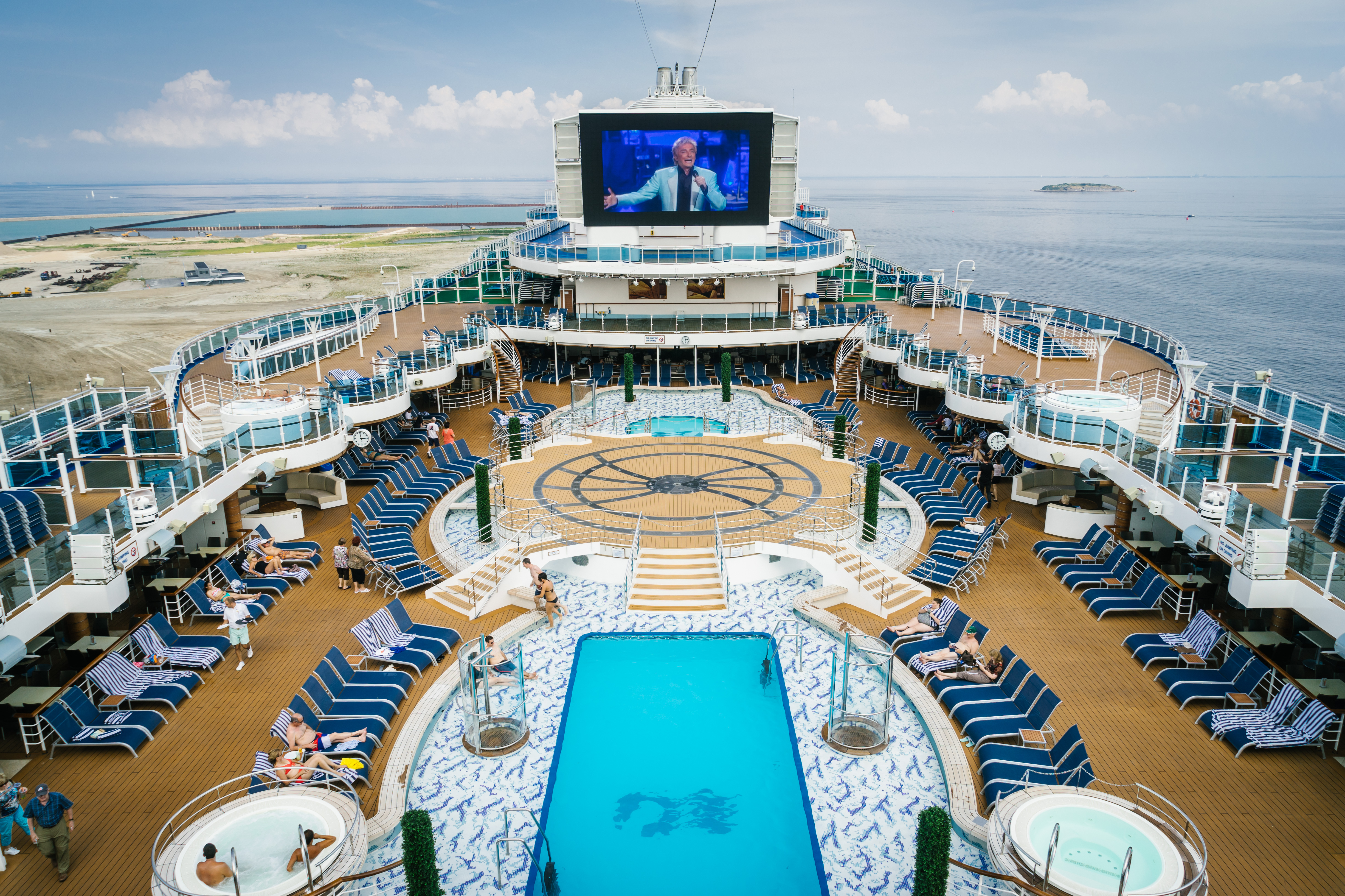 Barry Manilow on the movie screen atop the Royal Princess and view of the Lido deck